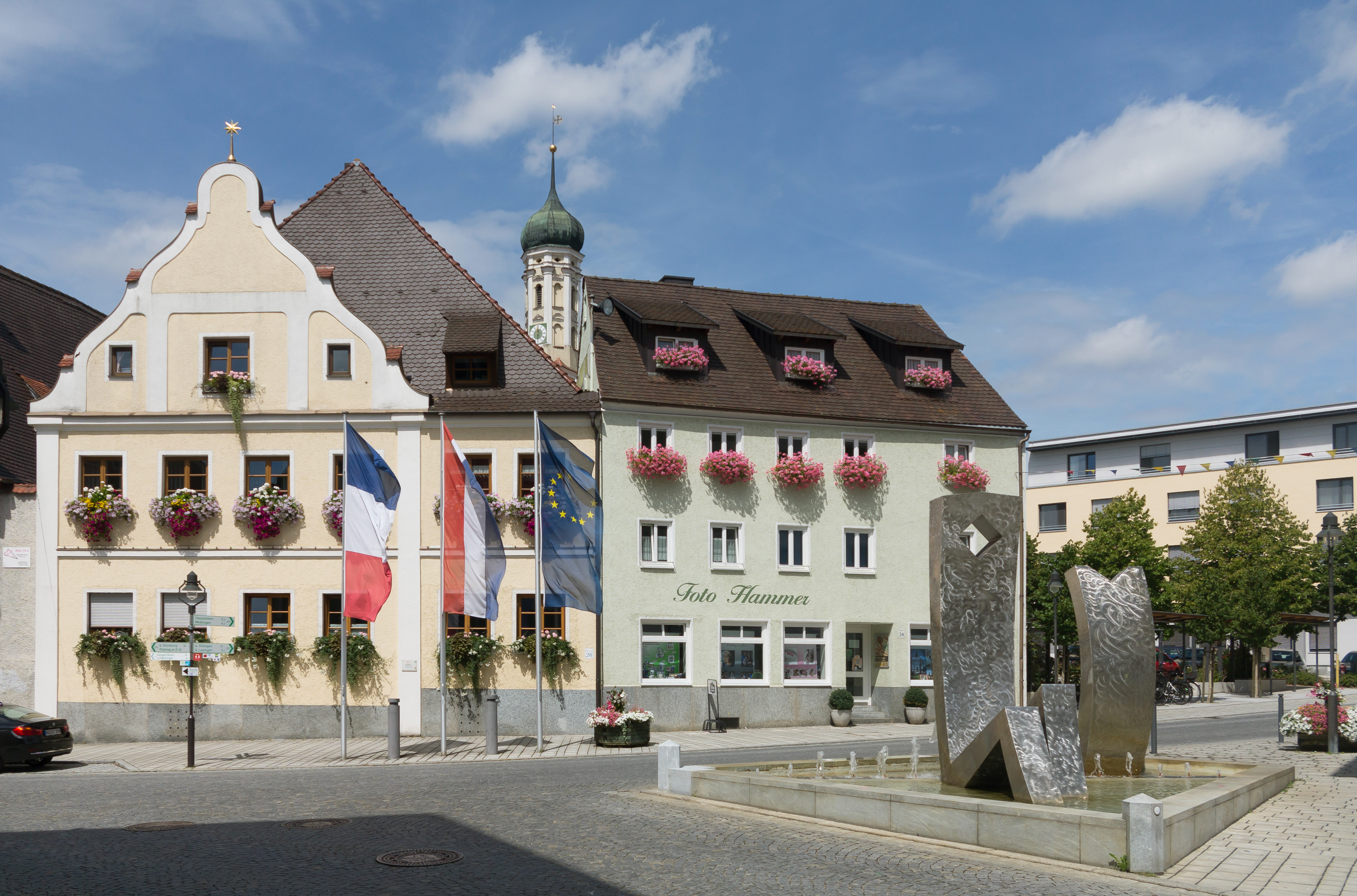 Gundelfingen an der Donau, sculpture at der Haupt Strasse with Ehemaligem Gasthaus zum SternThis is a photograph of an architectural monument.